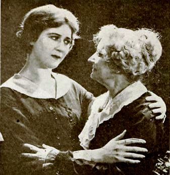 Still for the American film The Petal on the Current (1919) with Mary MacLaren and Gertrude Claire, on page 1271 of the August 9, 1919 Motion Picture News.